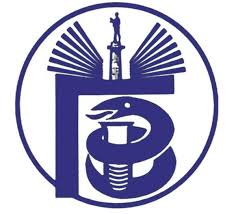 Лого Градског завода за јавно здравље у Београду